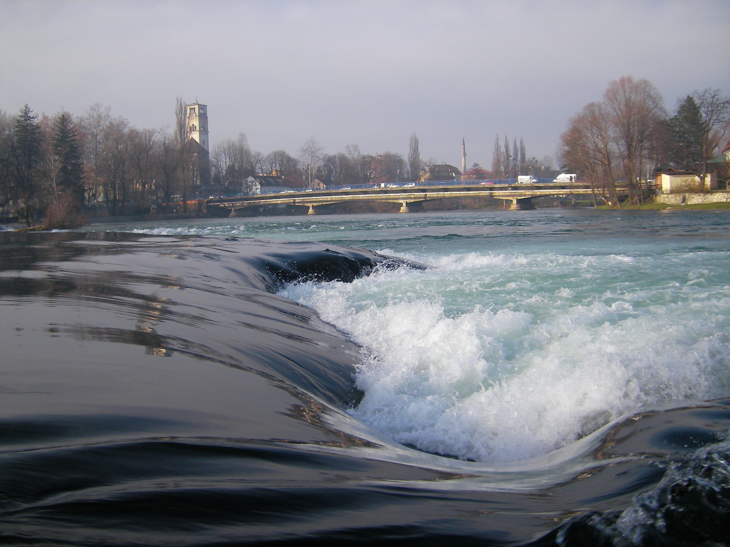 A picture of Bihac city center taken from a minor waterfall in Bihac.